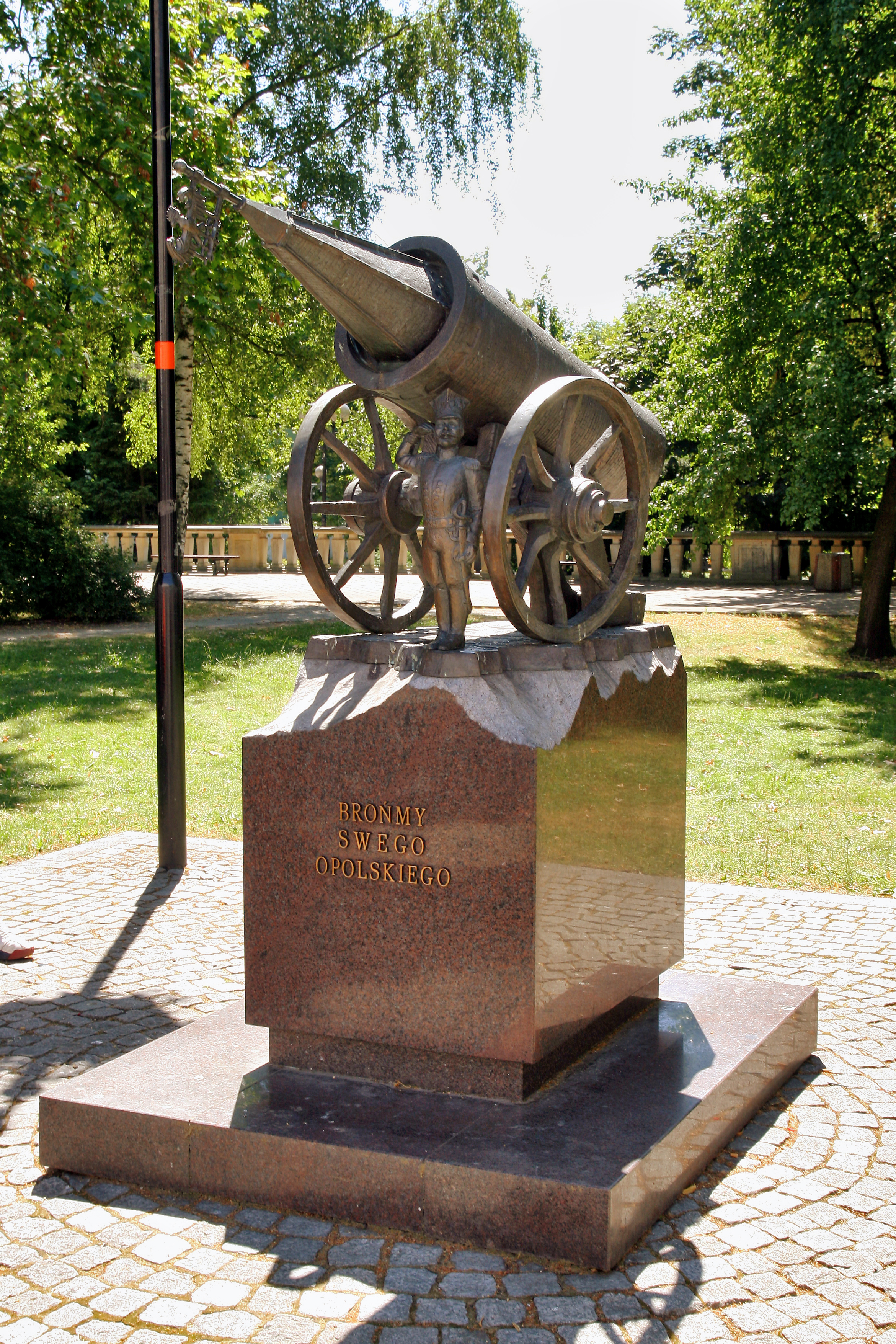 The Monument dedicated to defending of Opole voivodship in Opole.